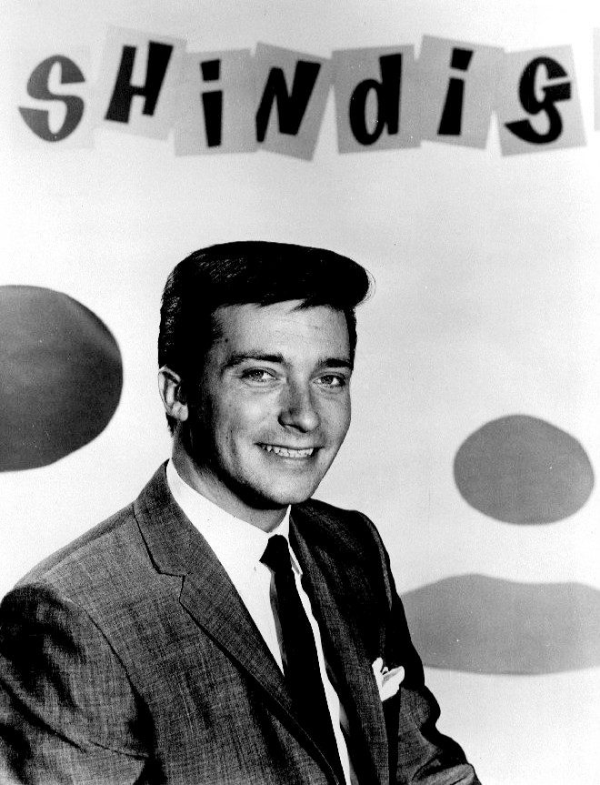 Photo of Jimmy O'Neill, disc jockey and host of the television series Shindig!.